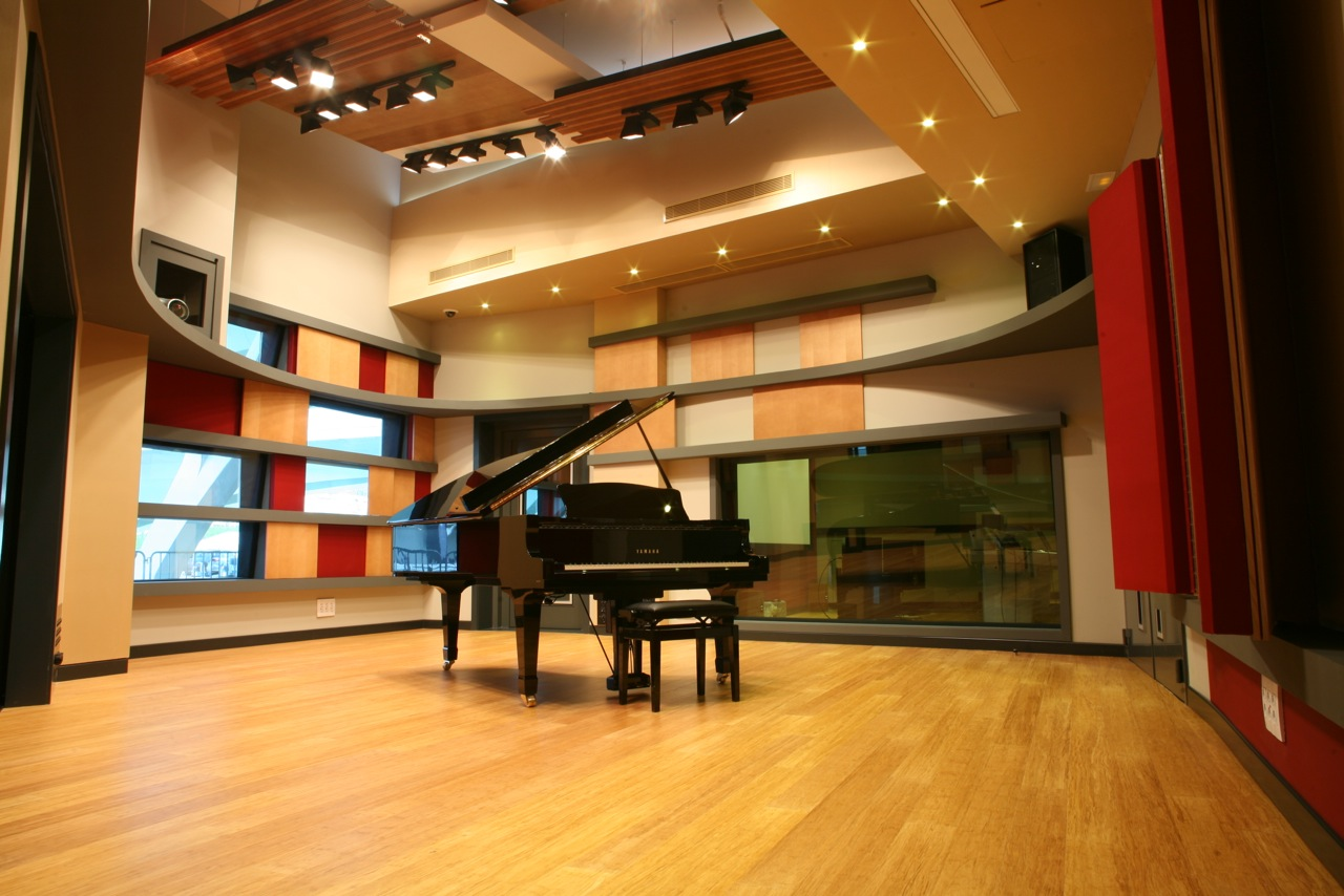 A WSDG studio at Berklee Valencia